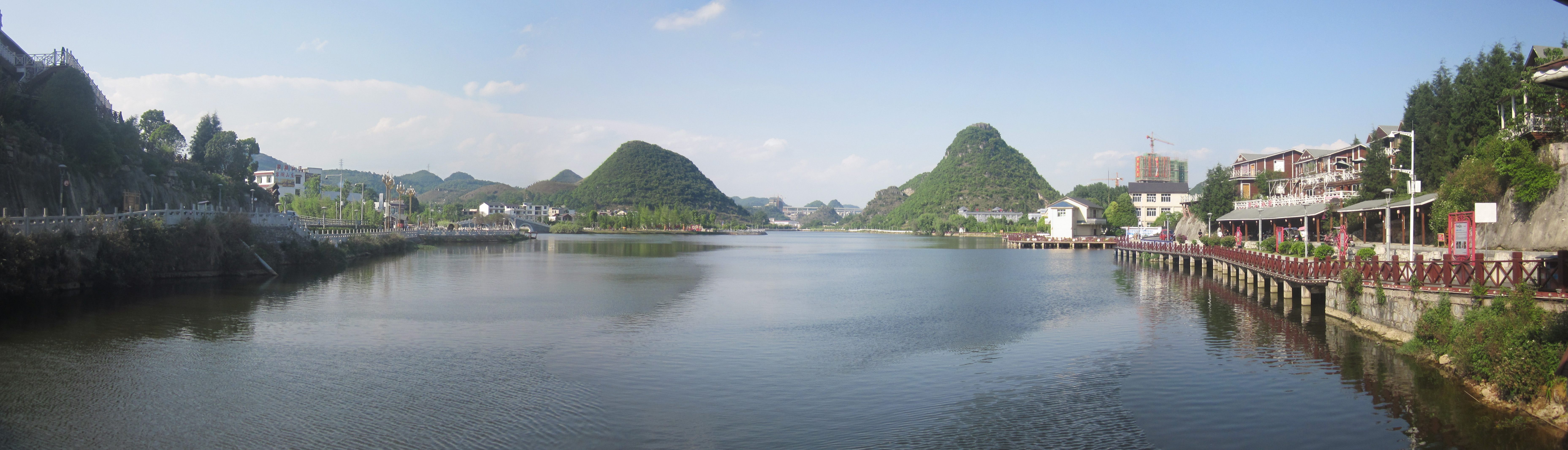 A panoramic view of Red Flag Lake.